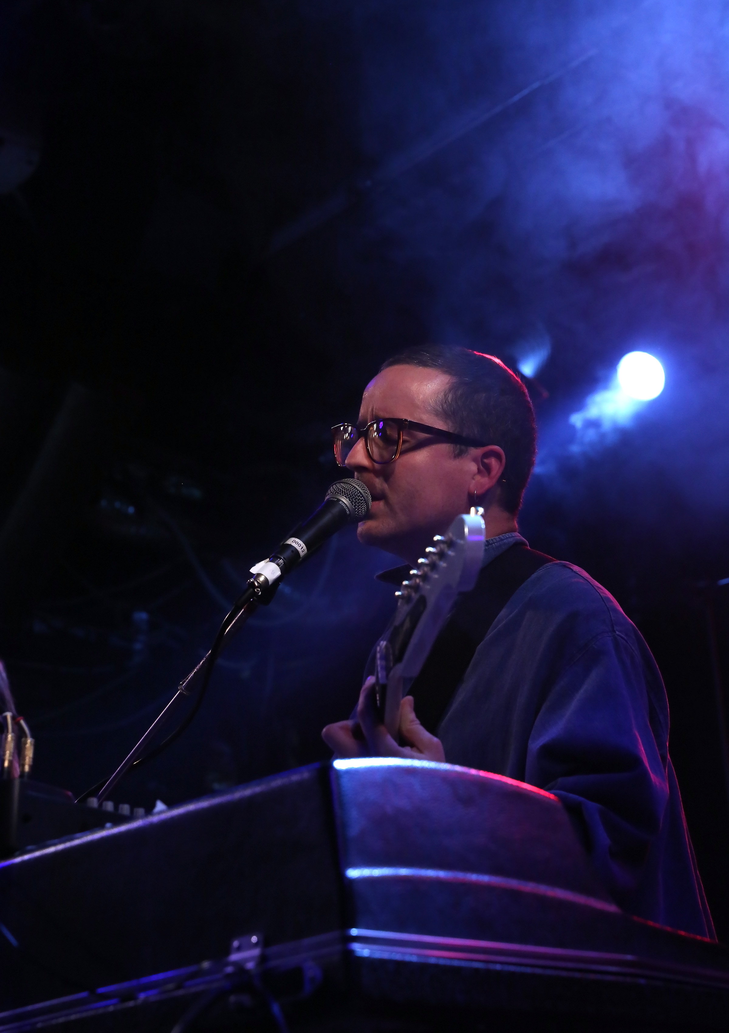 Alexis Taylor, concert at Flex during Waves Vienna Music Festival & Conference 2014 in Vienna, Austria.